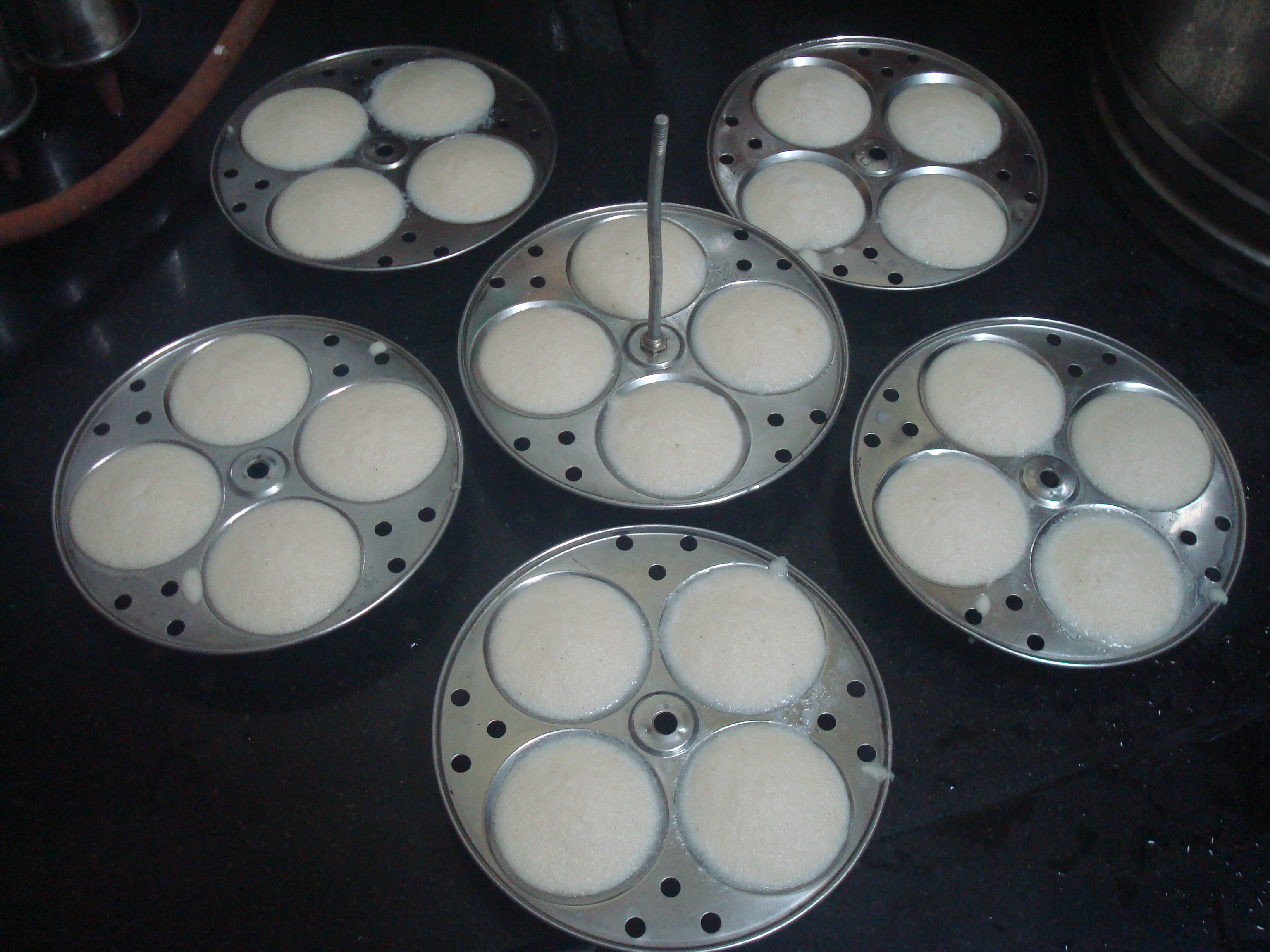 Plenty idlis